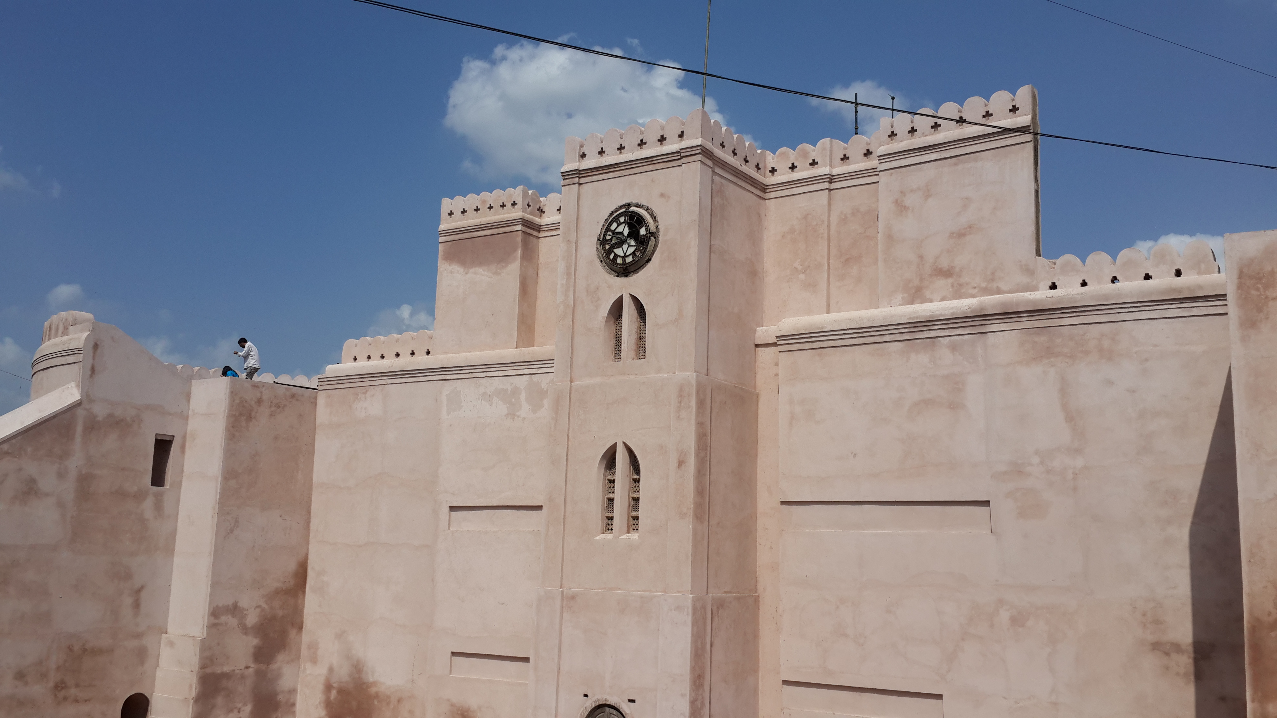 Bhadra Fort situated in Old city of Ahmedabad